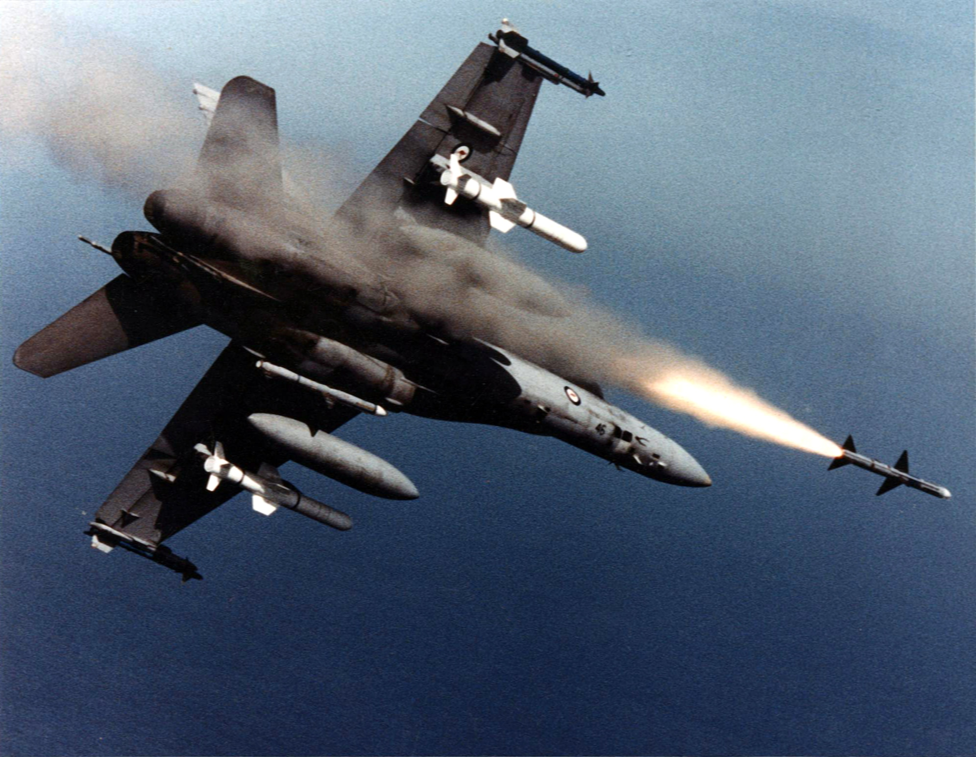 A Royal Australian Air Force McDonnell Douglas F/A-18A Hornet (s/n A21-46) firing an AIM-7M Sparrow missile. The aircraft also carries another AIM-7, two AGM-84 Harpoon missiles and two AIM-9M Sidewinder missiles.